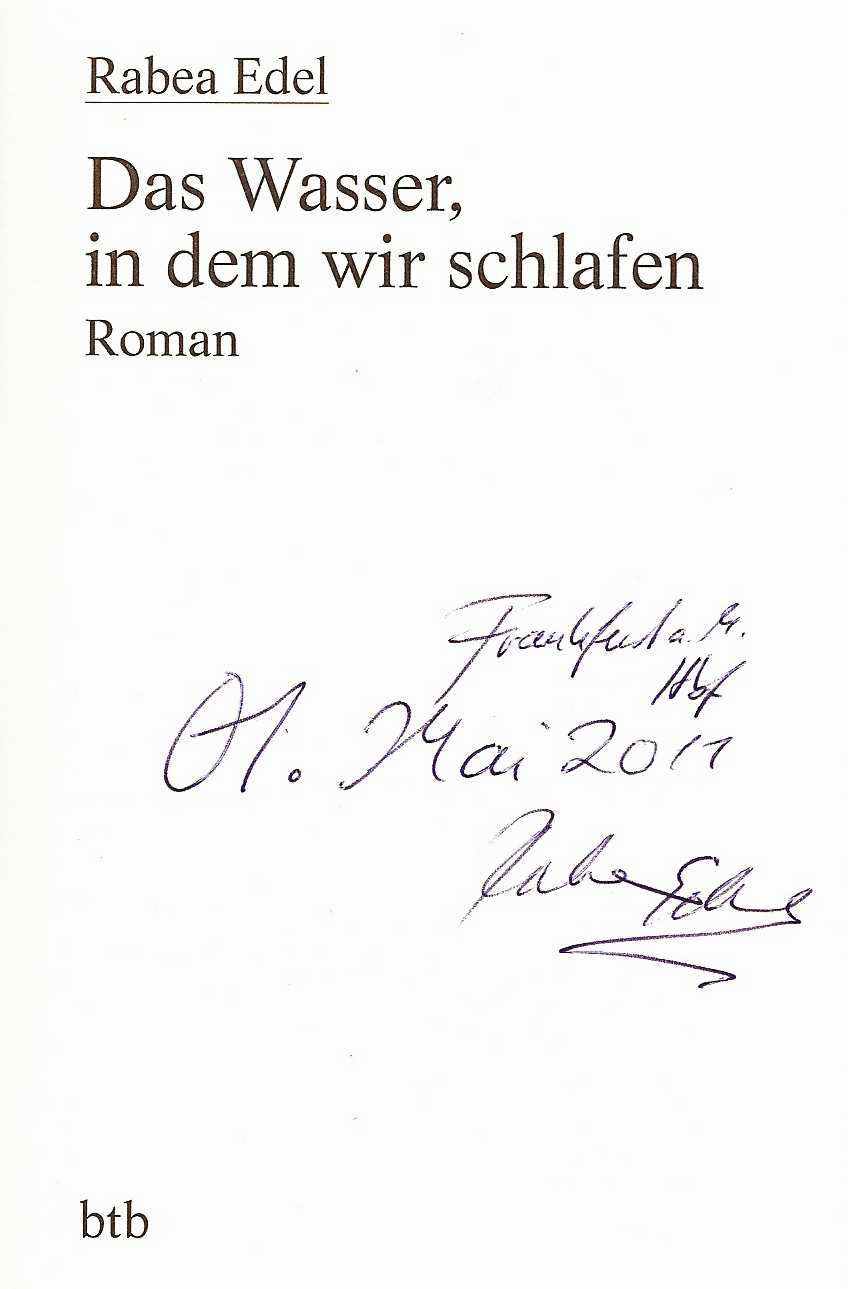 Autograph from Rabea Edel, German writer, 2011 in Frankfurt am Main, Germany.